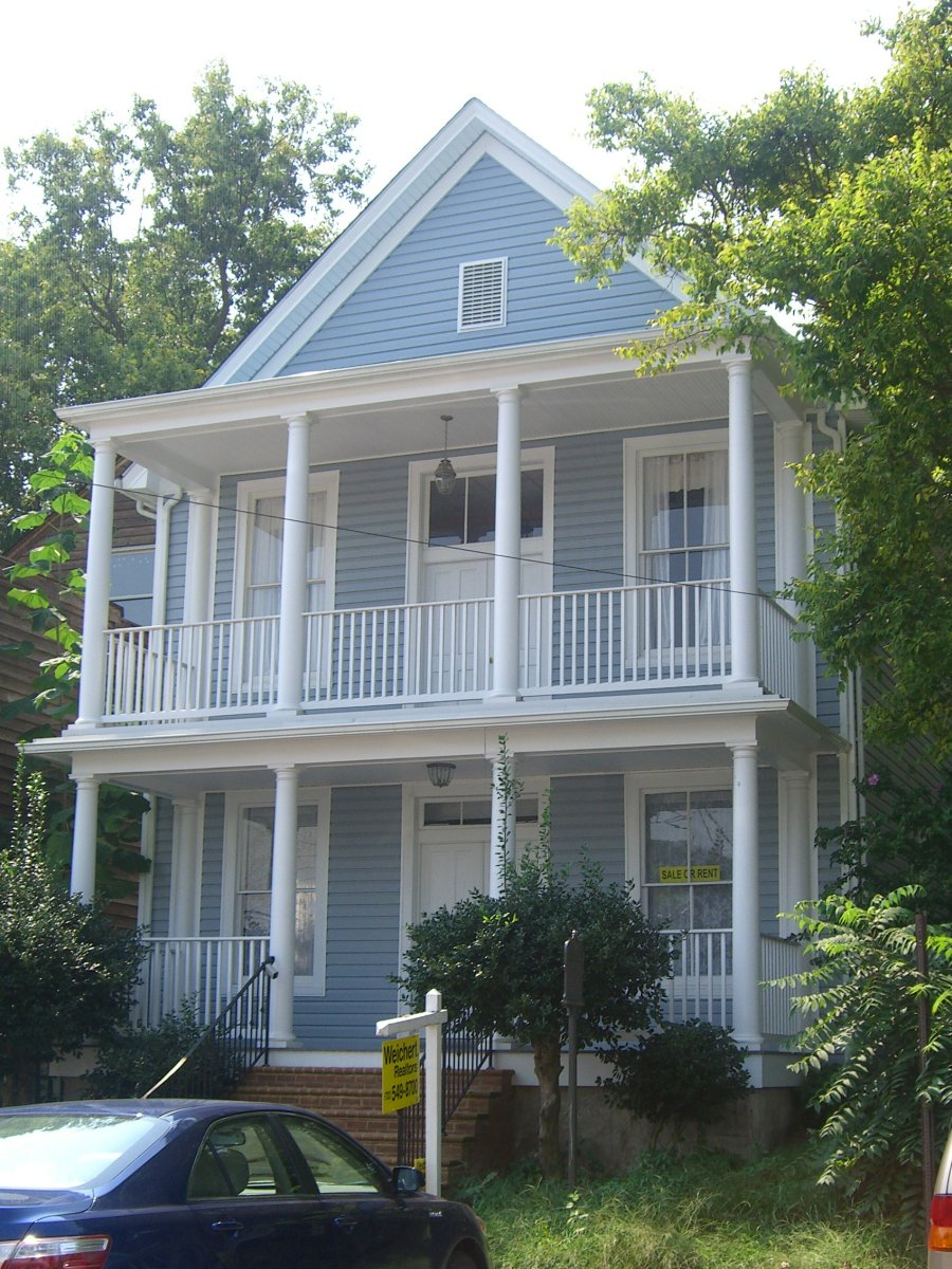 This is a picture of Odd Fellows Hall taken September 2007. The marker erected by the town is immediately to the right of the Realtor sign.